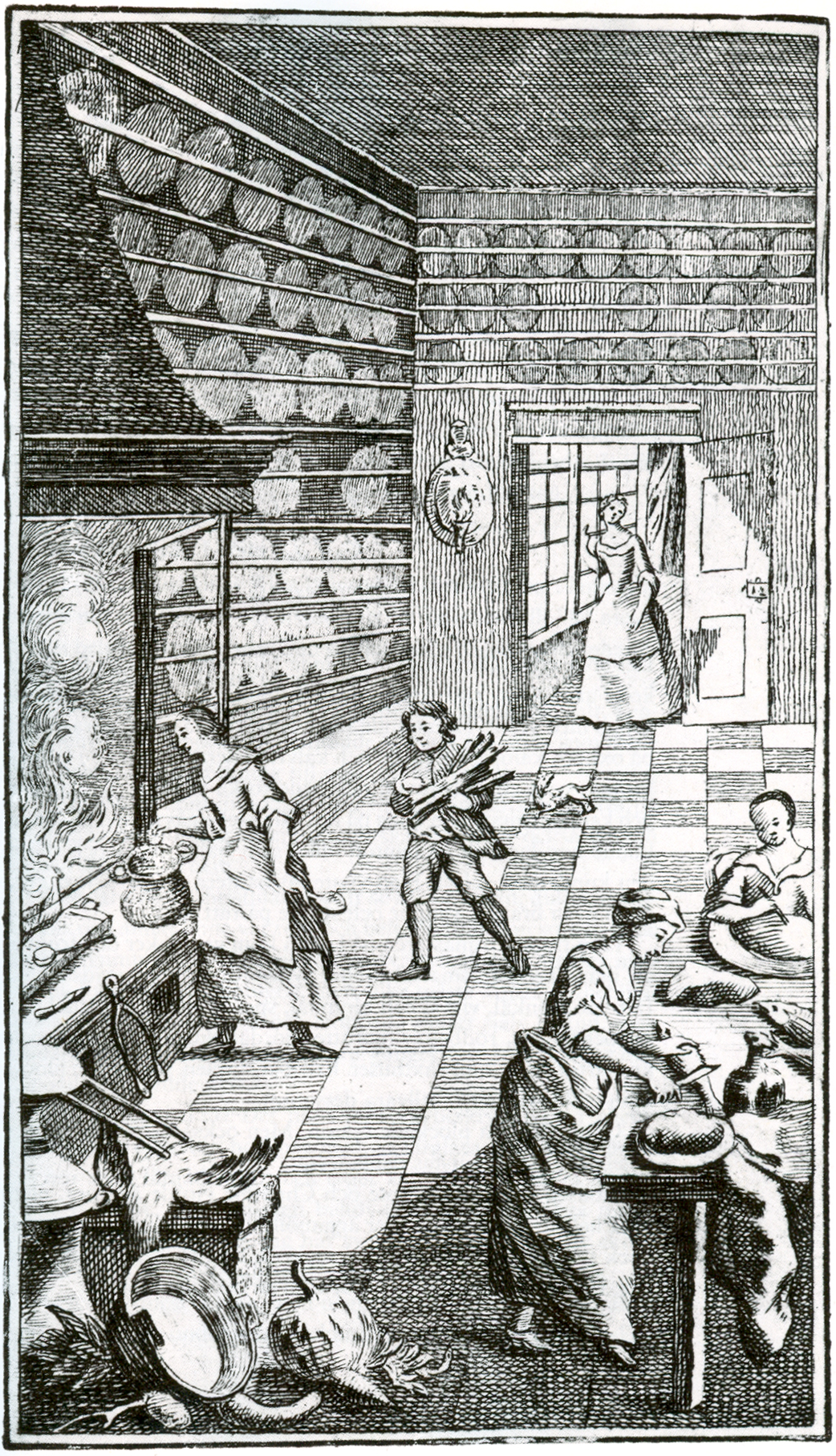 Frontispiece of the first edition of Christina (Cajsa) Warg's Hjelpreda i Hushållning för Unga Fruentimber, 1755. This engraving by Pehr Geringius also appeared in several subsequent editions of the book.